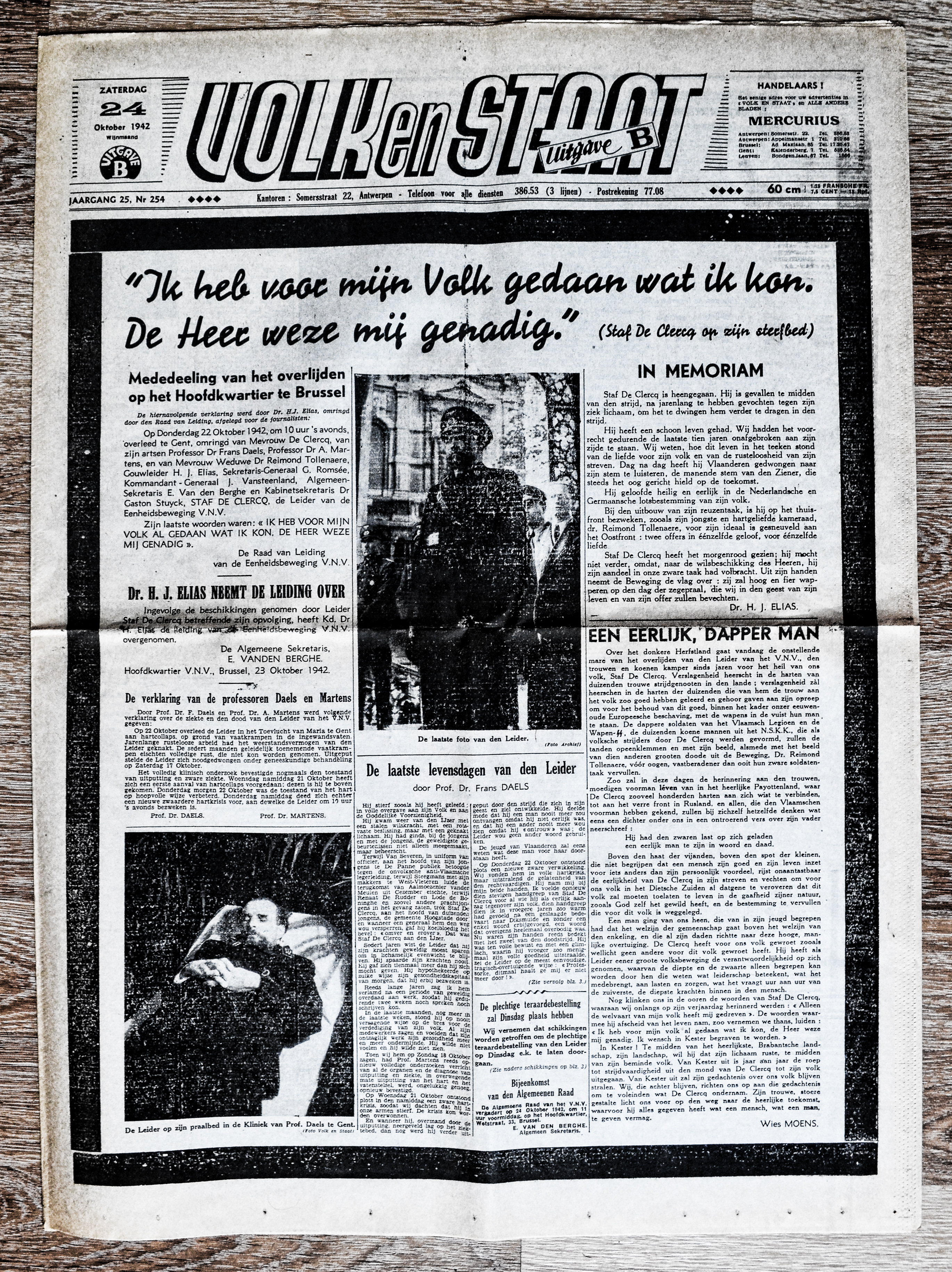 Frontpage Newspaper "Volk En staat" October 24 1942 about passing VNV leader Staf Declercq